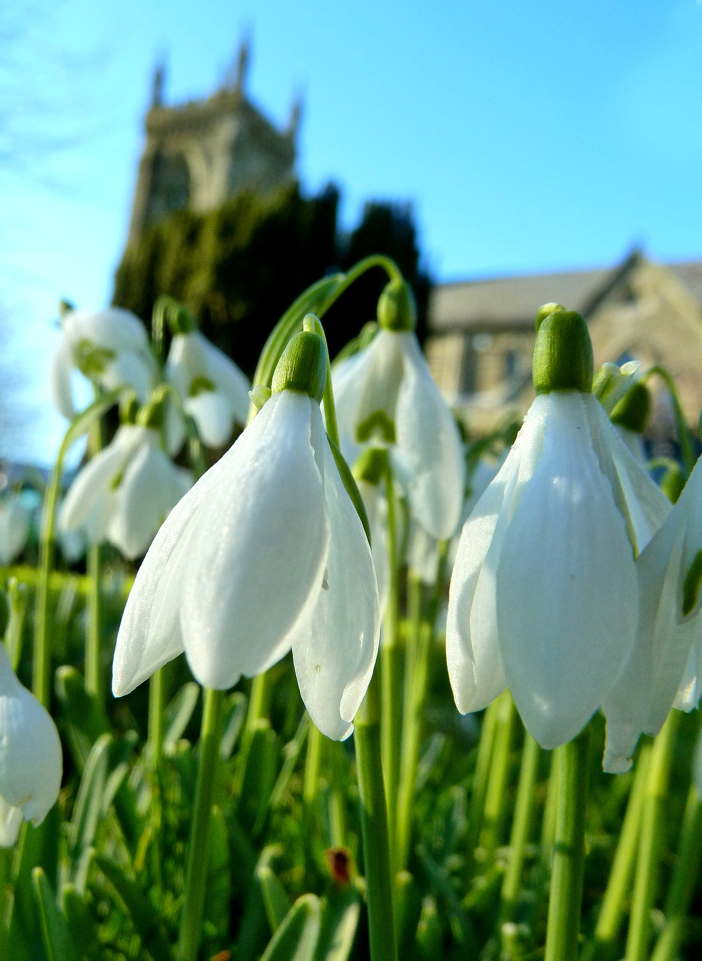 Snowdrop Festival, Shaftesbury